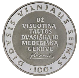 50 litas coin dedicated to the 100th Anniversary of the Great Seimas of Vilnius Silver Ag 925 Quality proof Diameter 38.61 mm Weight 28.28 g The edge of the coin features the Gediminian Columns Designed by Albertas Gurskas and Rytas Jonas Belevicius Mintage 1,500 pcs Issued 2005 The coin was minted at the state enterprise Lithuanian Mint.